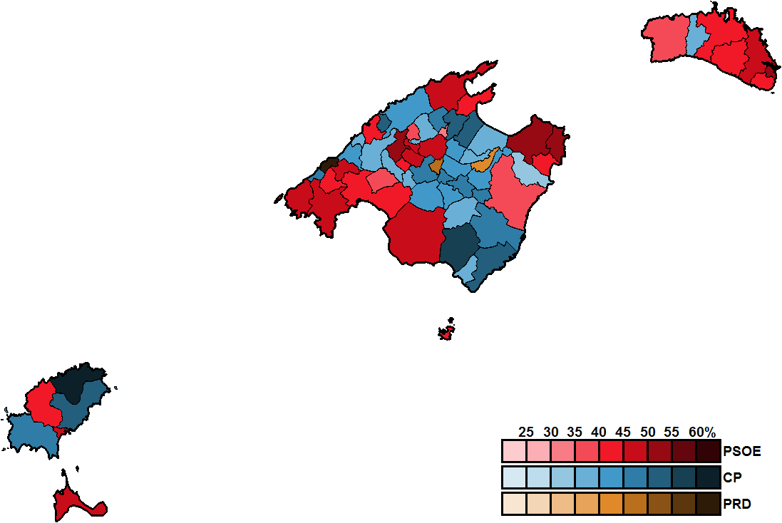 Most-voted party in Balearic Islands municipalities, showing vote share obtained, in the Spanish general election, 1986.